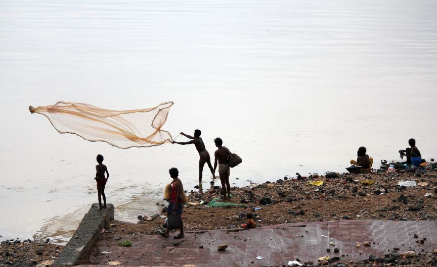 Fishing at Subarnarekha river near Domohani (River meets)